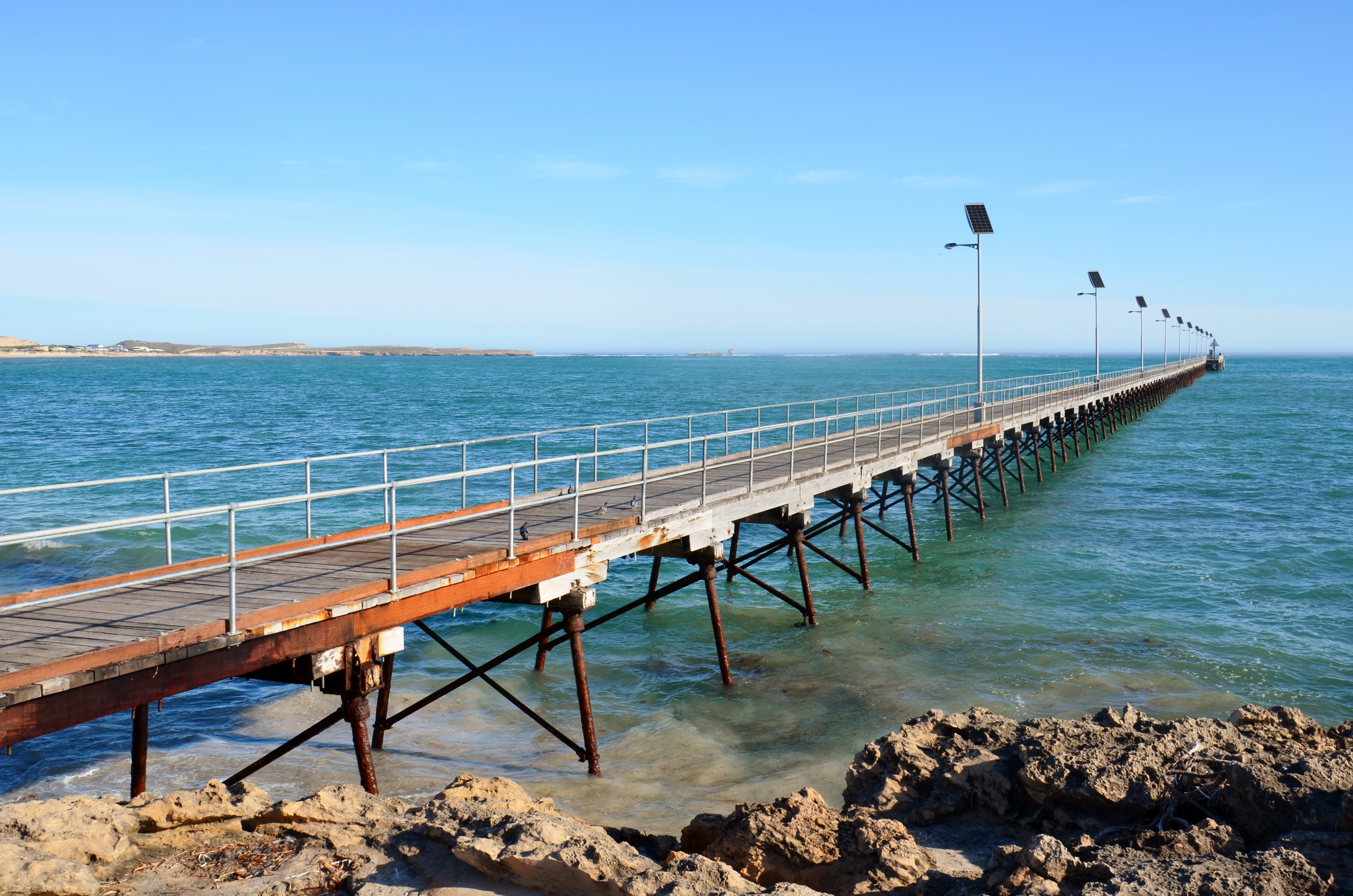 View of the Elliston Jetty, Elliston, South Australia